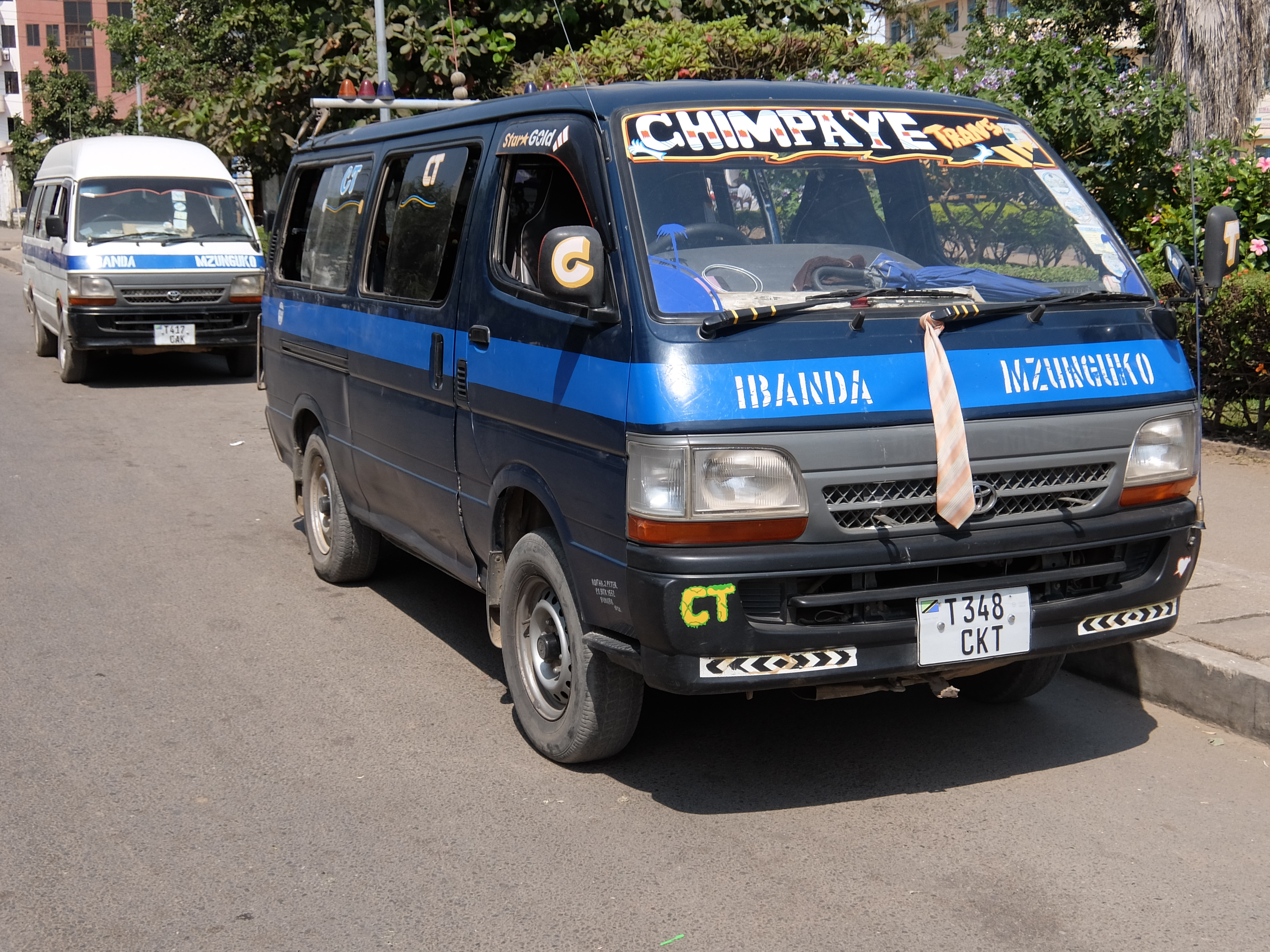 Two dala dalas (minibuses) at a bus stop in the center of Mwanza.